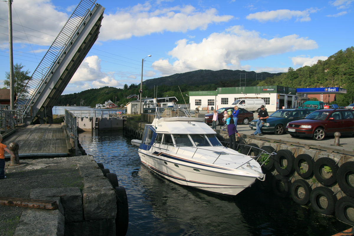 Skjoldastraumen sluser, pleasure boat in the Canal locks